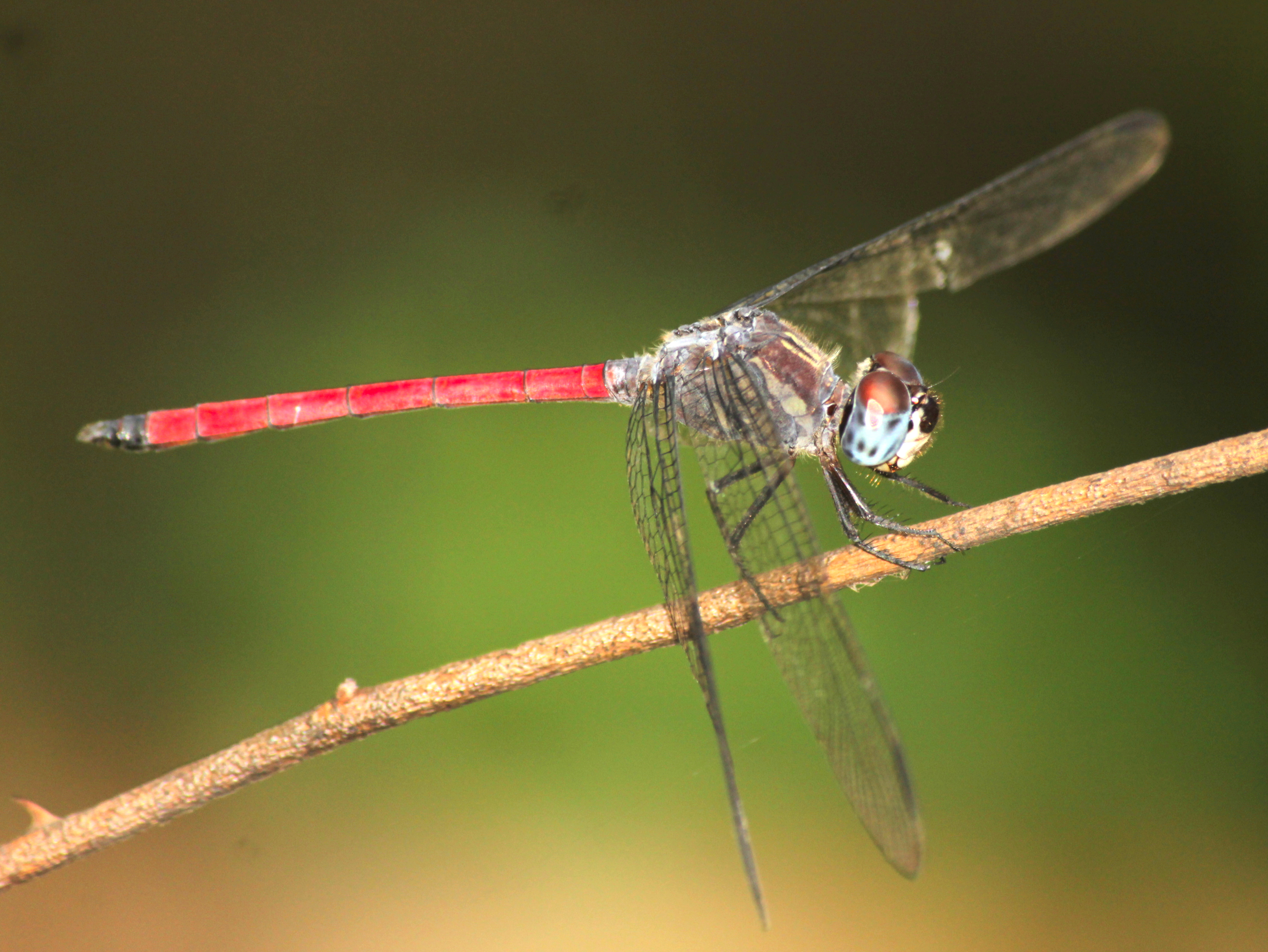 Asiatic blood tail male (Lathrecista asiatica). Photographed near Kanjirappally, Kerala, India.